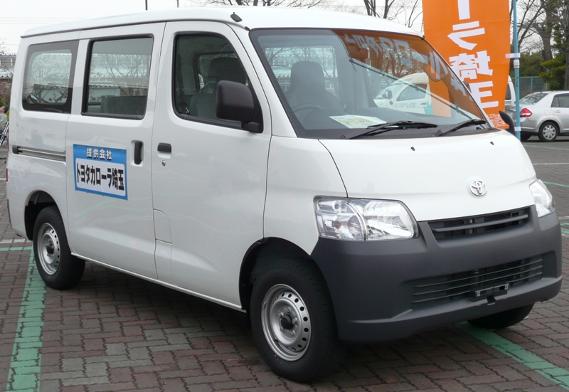 Toyota Town Ace Van DX.